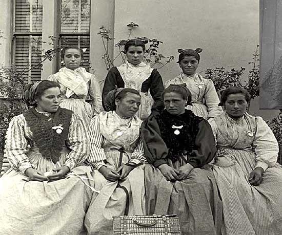 Eulalia de Abaitua y Allende-Salazargroup. Photographer died in 1943. Date here is a guess